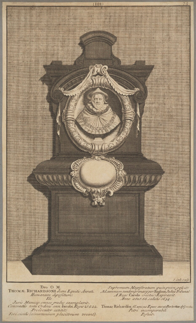 Sir Thomas Richardson by James Cole, c 1720. According to the ODNB: "His family saw that a monument, complete with a bronze portrait bust by Hubert Le Sueur, for which he had allowed £100 in his will, was erected in the south aisle of the abbey choir and soberly listed his offices and responsibilities."